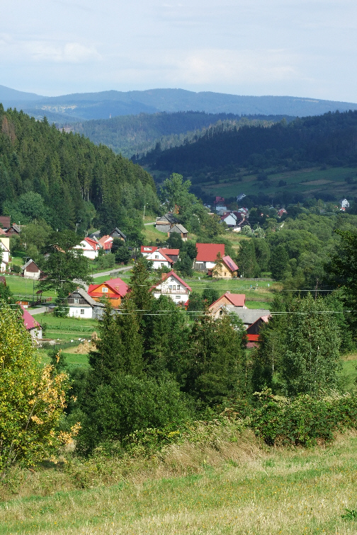 Sól view from Oźna hill